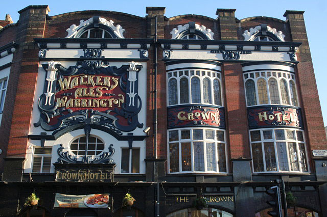 Crown Hotel This GradeII* Victorian pub emerged from a facelift earlier this year in fine style.